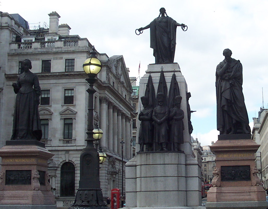 en:2005 - Florence Nightingale and Sidney Herbert, 1st Baron Herbert of Lea